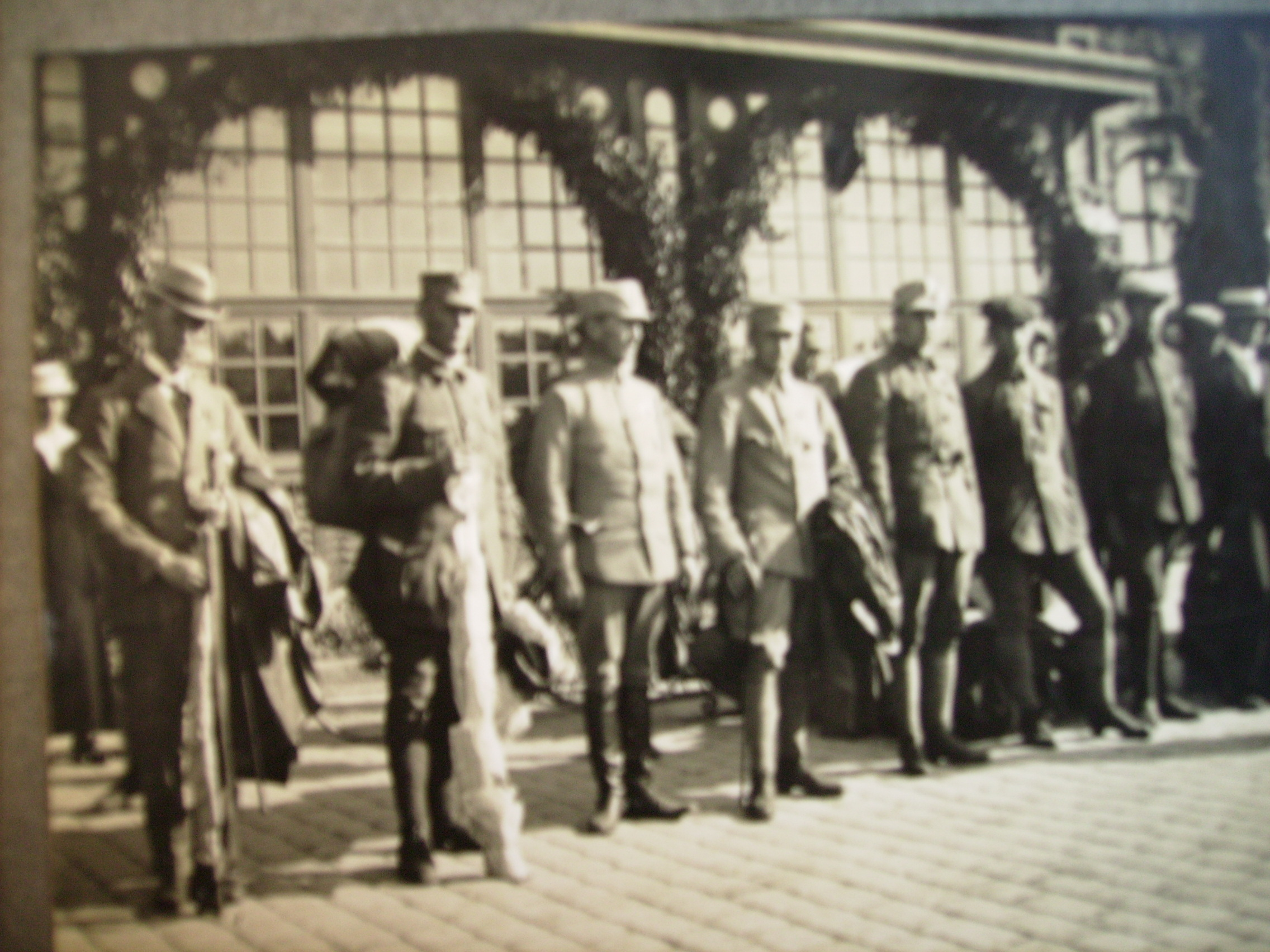 Svenska brigaden at Gothenburg central station 1918